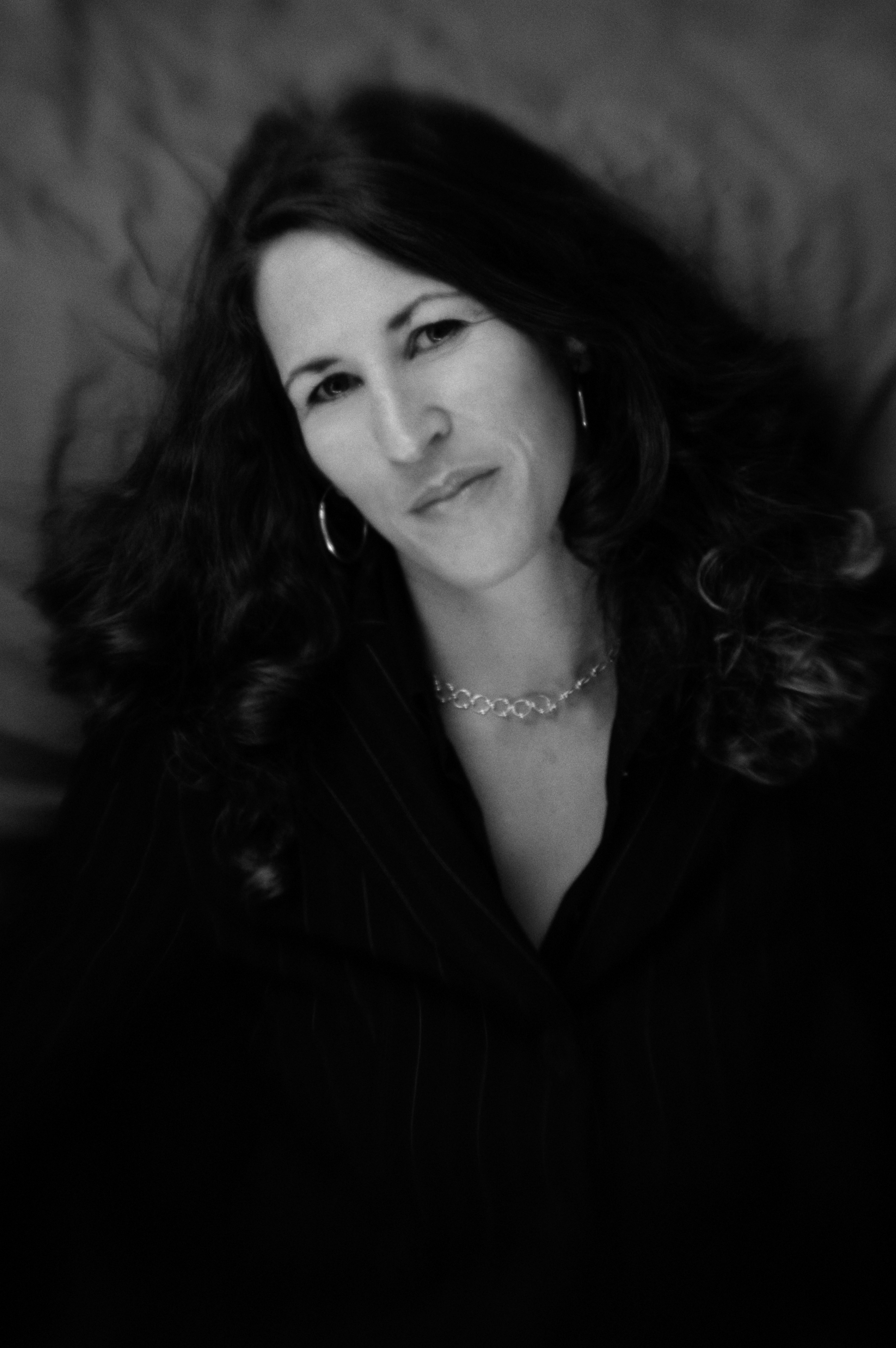 A portrait of the writer and social commentator Wendy-O Matik